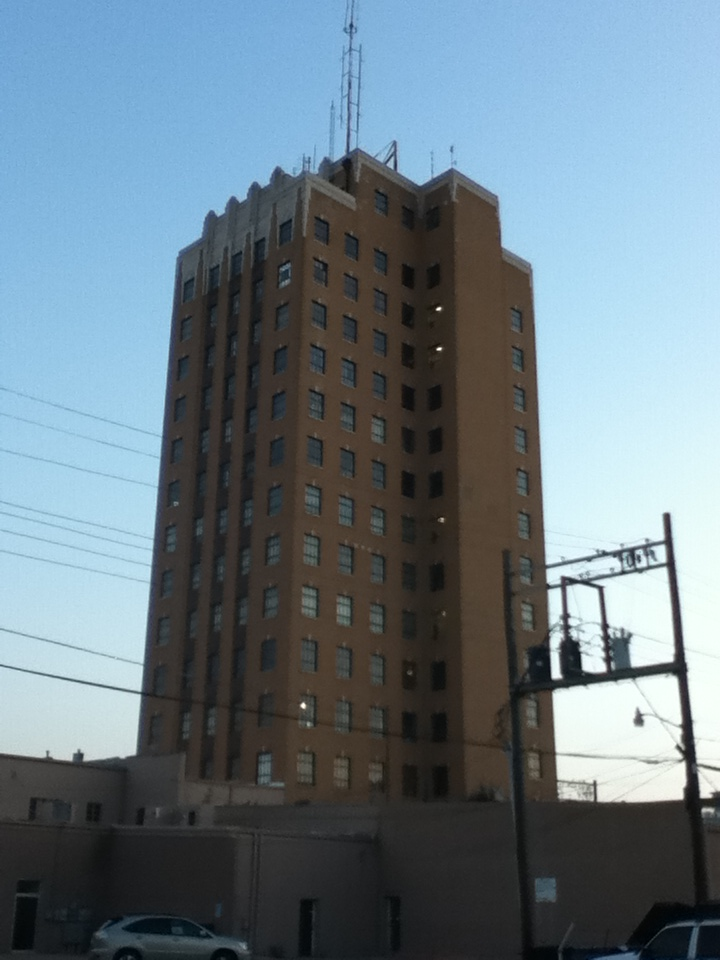 The Broadway Tower is Enid's tallest building.